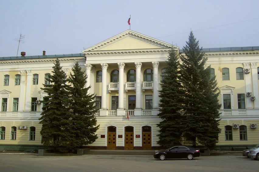 Bryansk, Russia. The building of regional Duma (parliament), Karl Marx Square